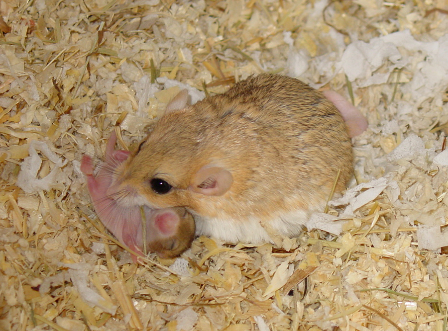 A female Fat-tailed Gerbil (Pachyuromys duprasi) carrying one of her two week old pups.